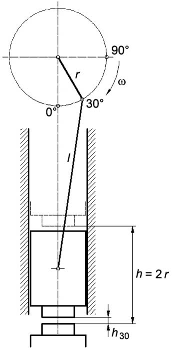 Principle of a cranced press